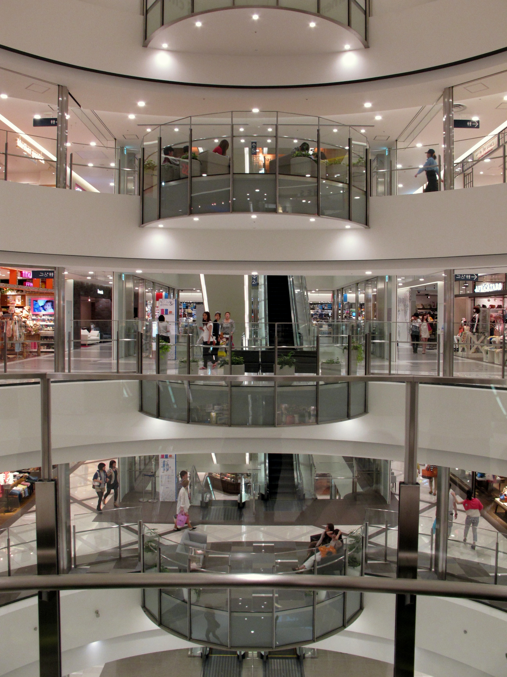 Umie South Mall Void